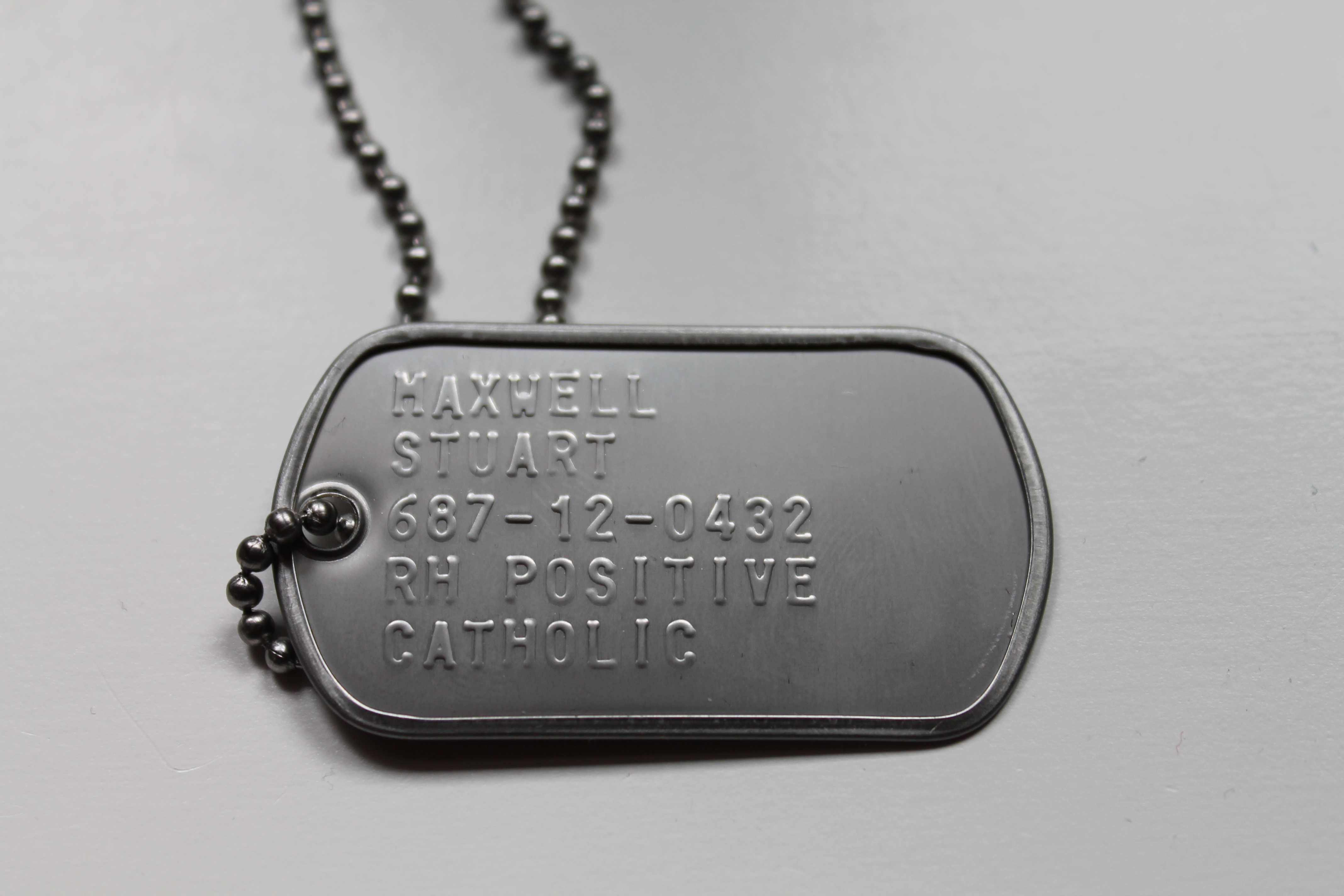 Imitated US Dog Tag with Surname, First name, Social Security number, Blood type, Religion the file will be used at Dog tag